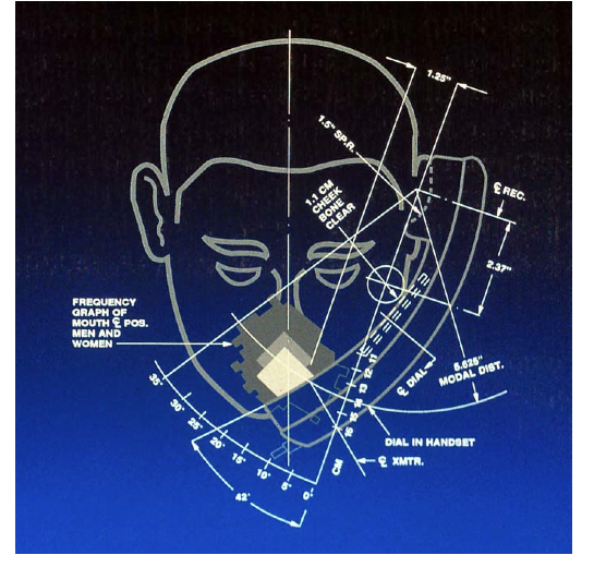 Trimline phone ergonomic analysis Call Paterson Chiropractor Dr. Ricardo Lalama, D.C., a car accident specialist at (862)571-1792 to help you get neck & back pain relief today.